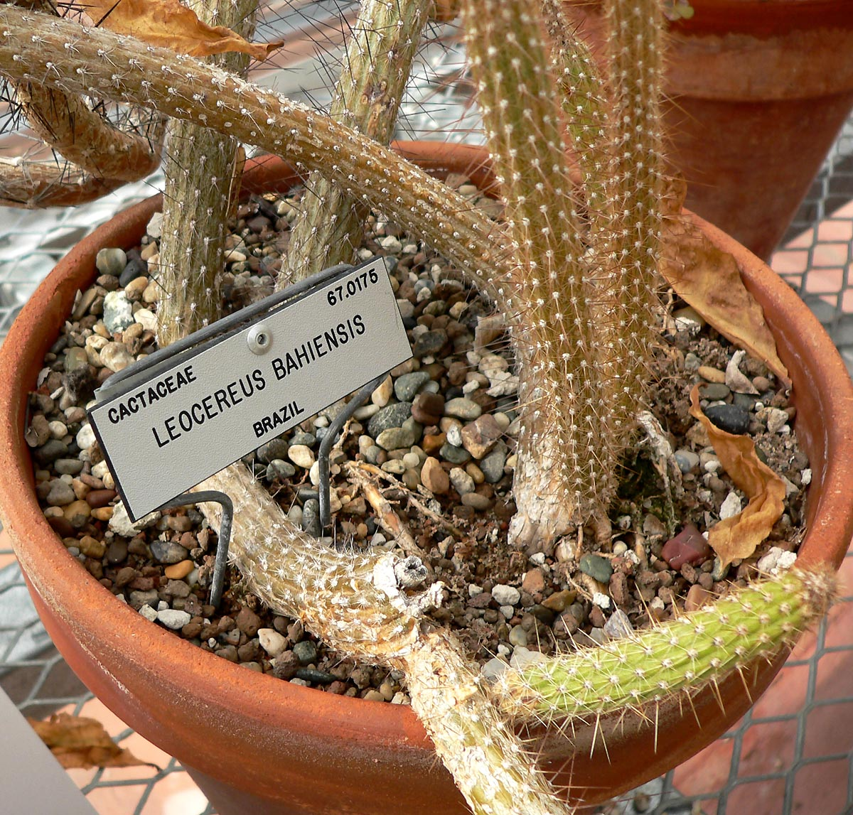 Photo of Leocereus bahiensis at the University of California Botanical Garden